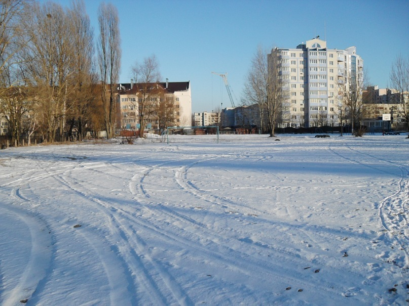 Hlevacha